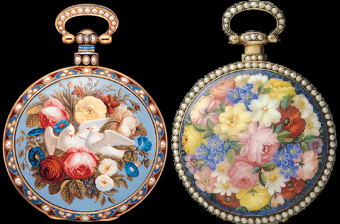 Enameled gold pocket watch, circa 1830—1835